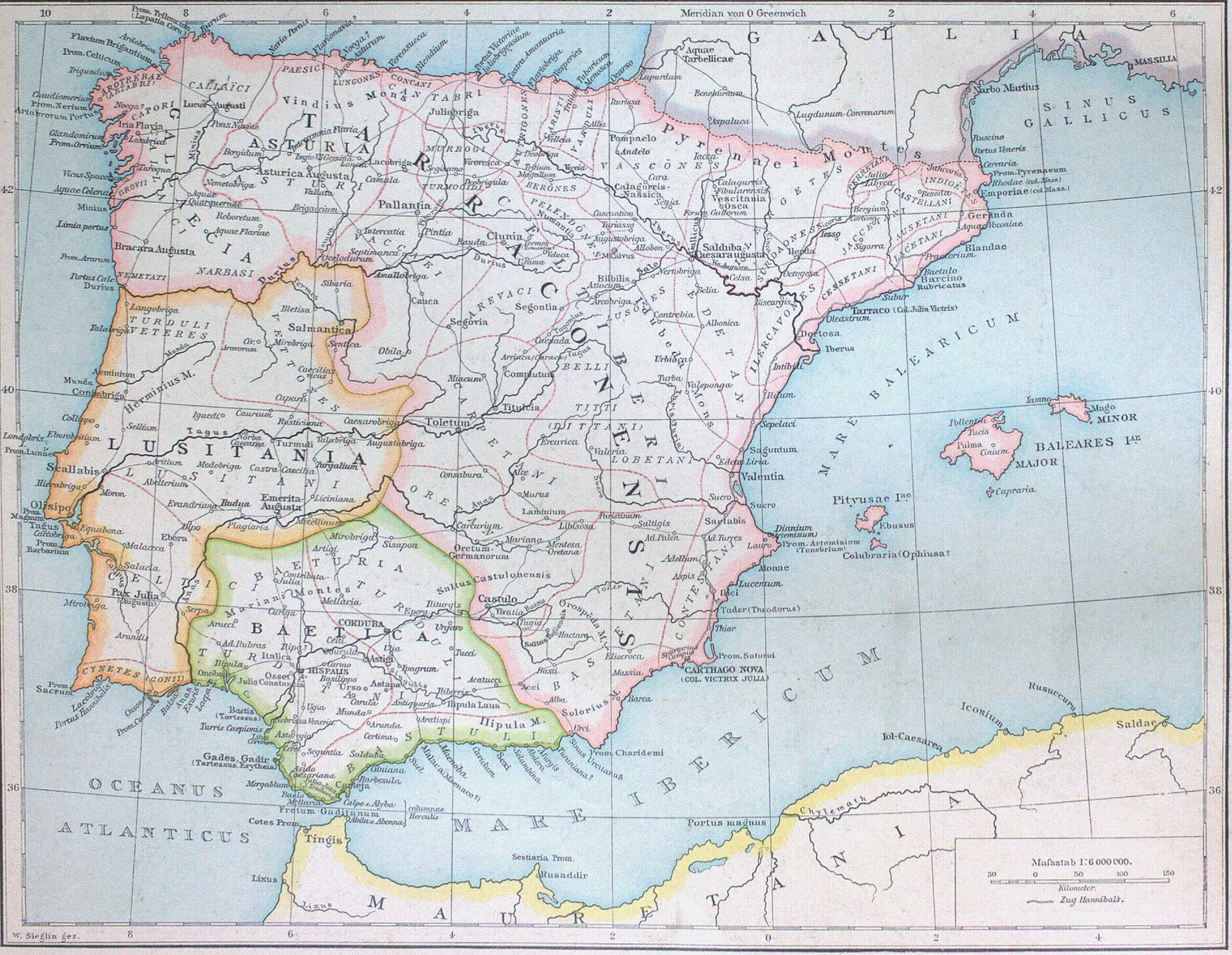 A map of ancient Hispania Baetica, Lusitania, and Hispania Tarraconensis in Gustav Droysen’s „Historischer Handatlas“.